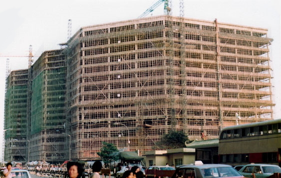 New World Centre 中文（香港）: 新世界中心